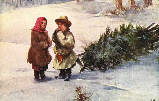 Children with Christmas Tree (postcard)